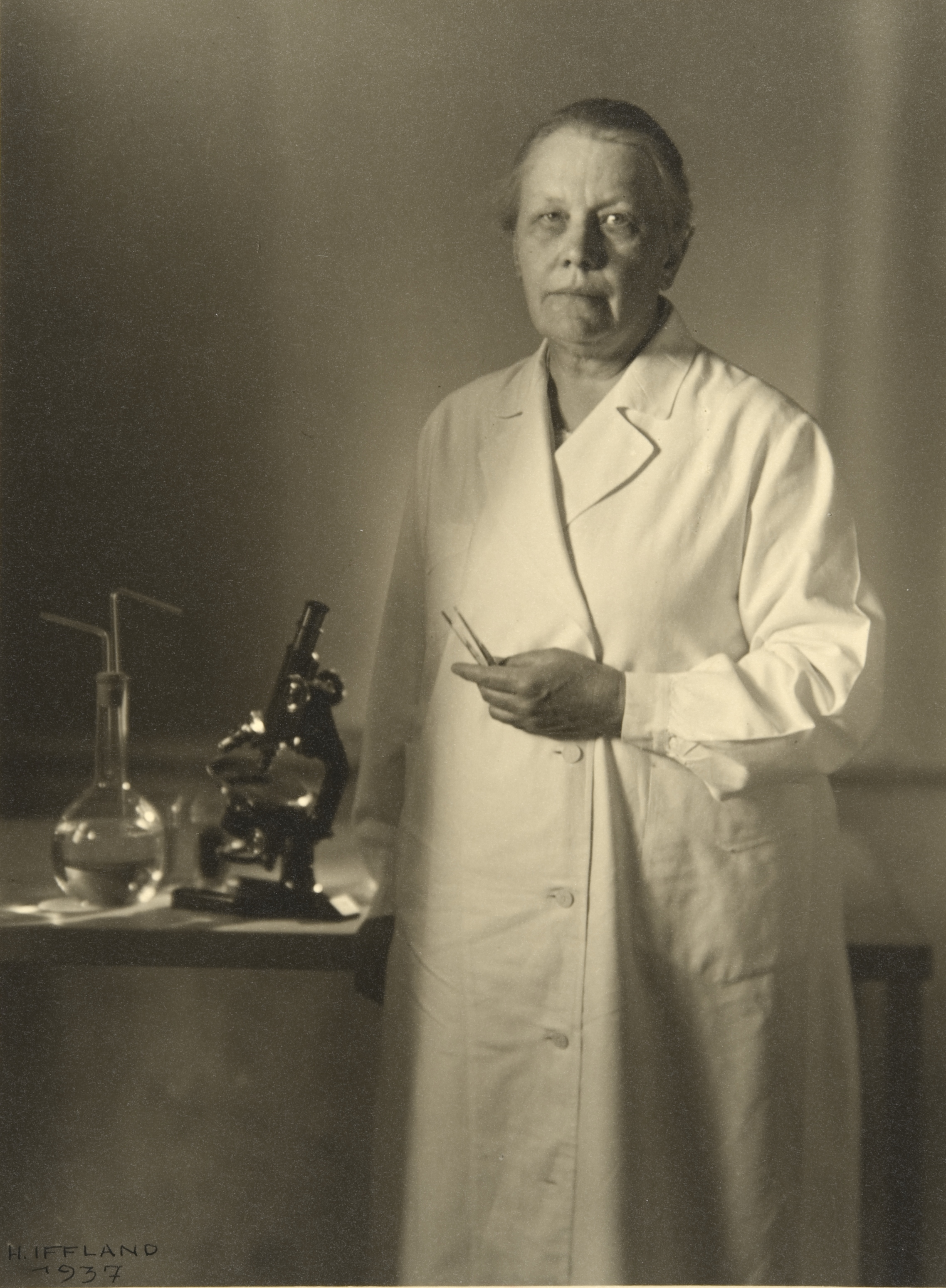 Finnish physician Laimi Leidenius (1877–1938).